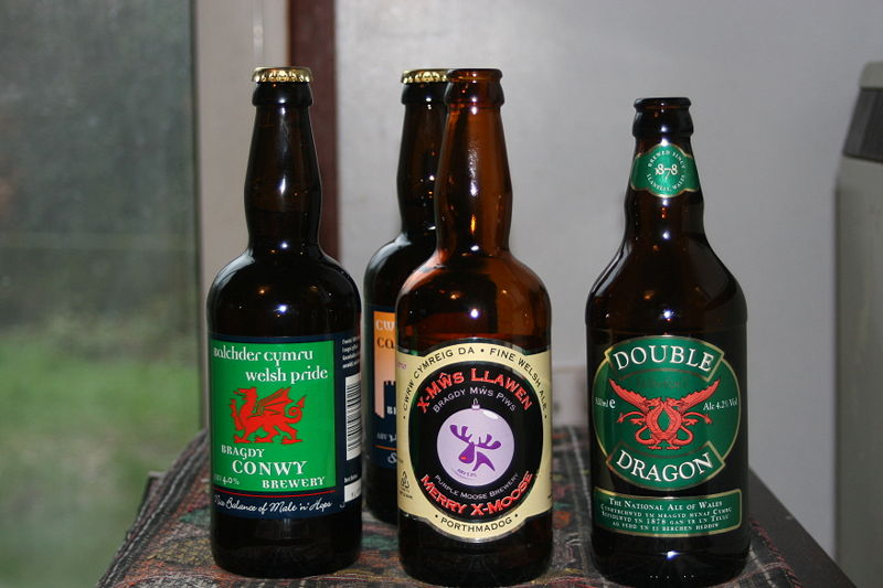 Selection of Welsh beers